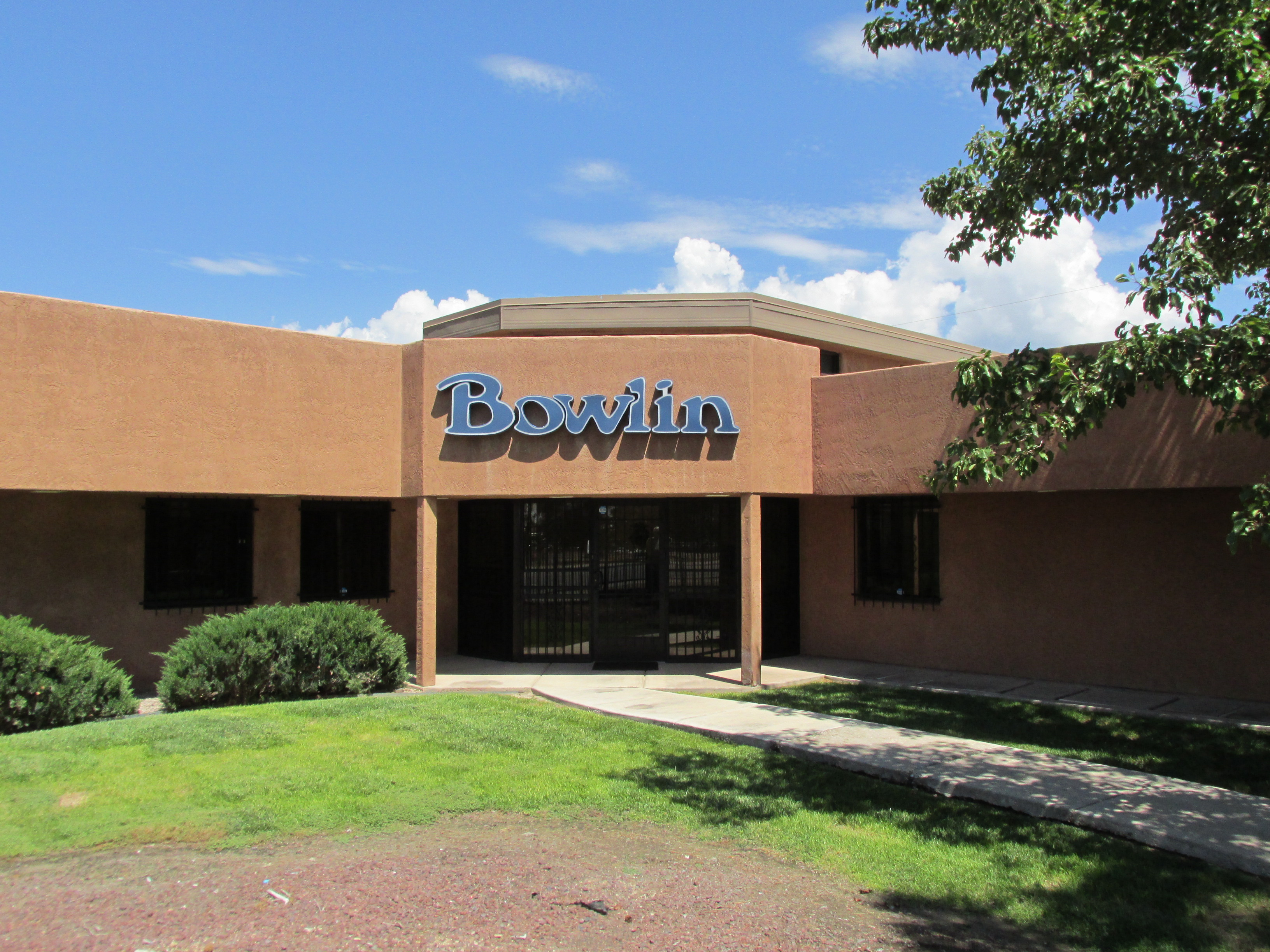 Bowlin Travel Centers, Corporate Headquarters, Albuquerque New Mexico - 2013